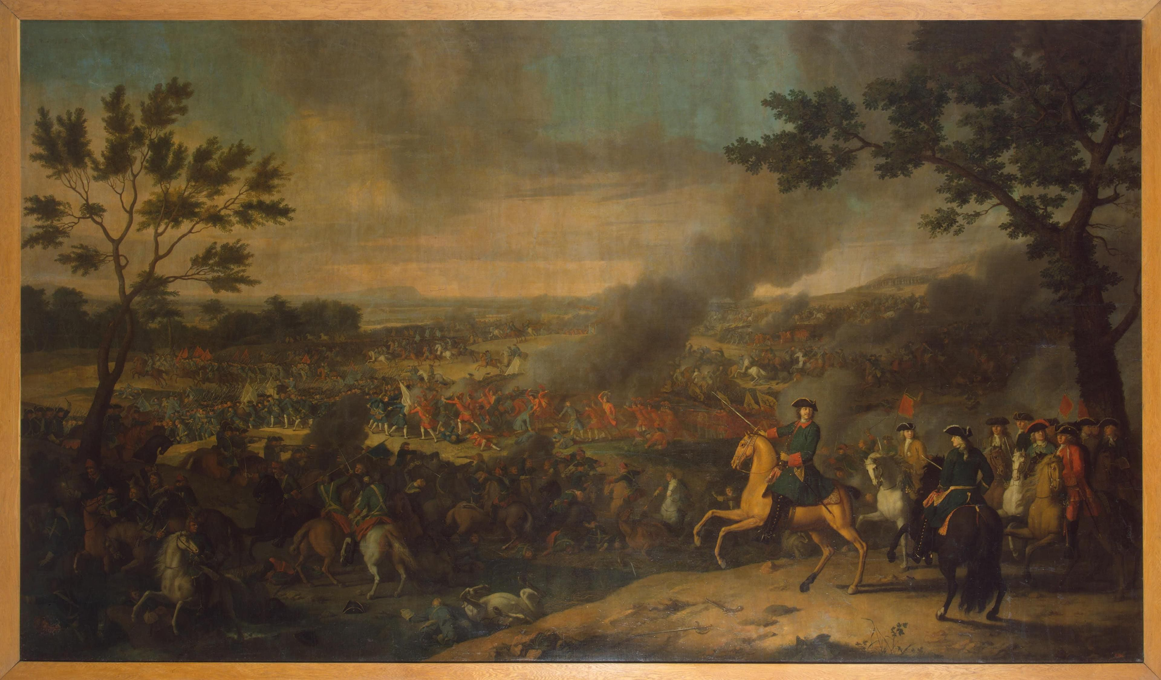 Battle of Poltava in 1709. Tsar Peter I of Russia is shown on a horse. State Hermitage, S.-Peterburg, Russia